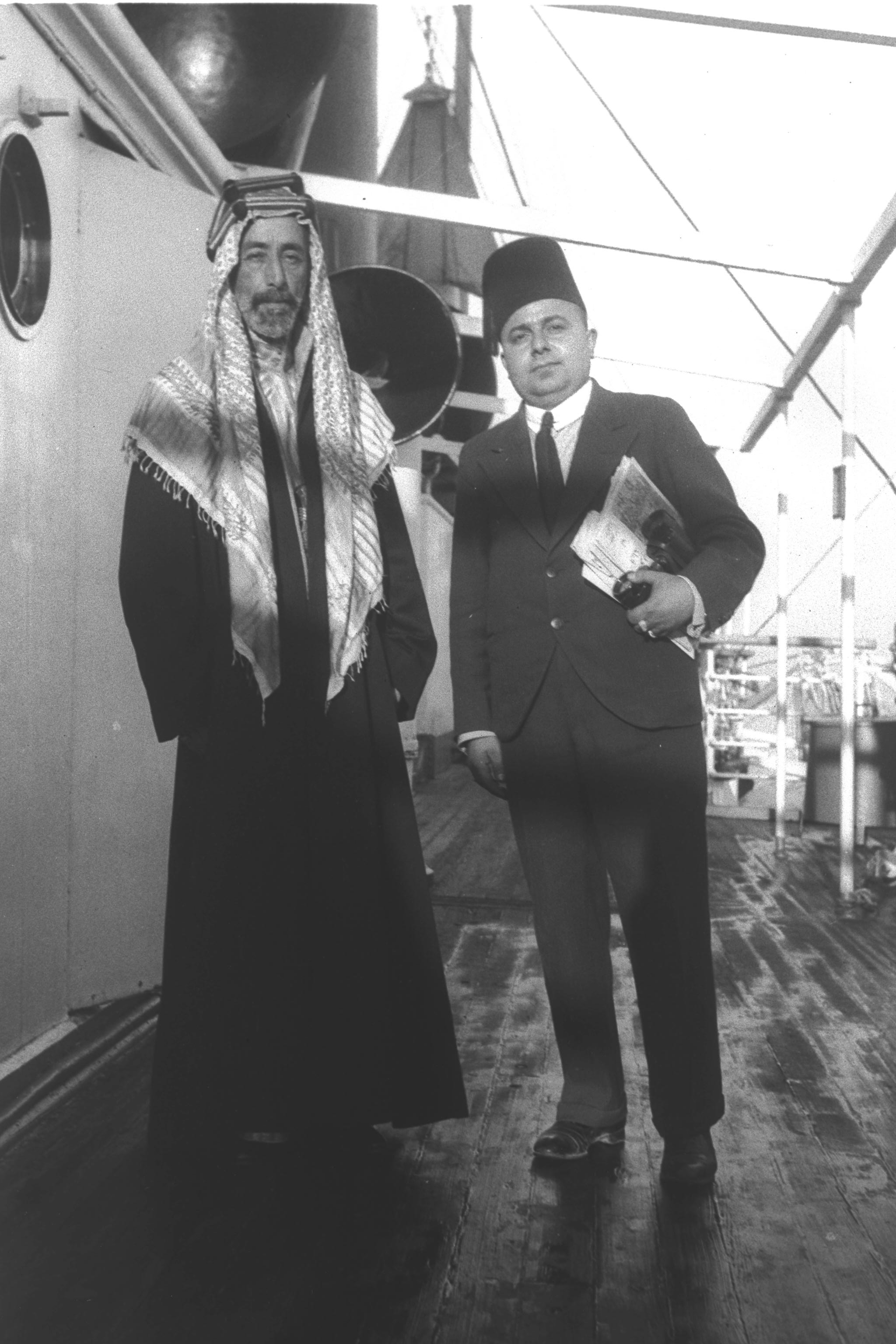 EXILED KING ALI OF HEJAZ WITH THE EDITOR OF THE JAFFA ARAB DAILY "PALESTINE" ABOARD A SHIP AT THE JAFFA PORT. עלי מלך חג'אז בצילום משותף עם עורך העיתון מיפו "פלסטין" על סיפון האוניה בנמל יפו.